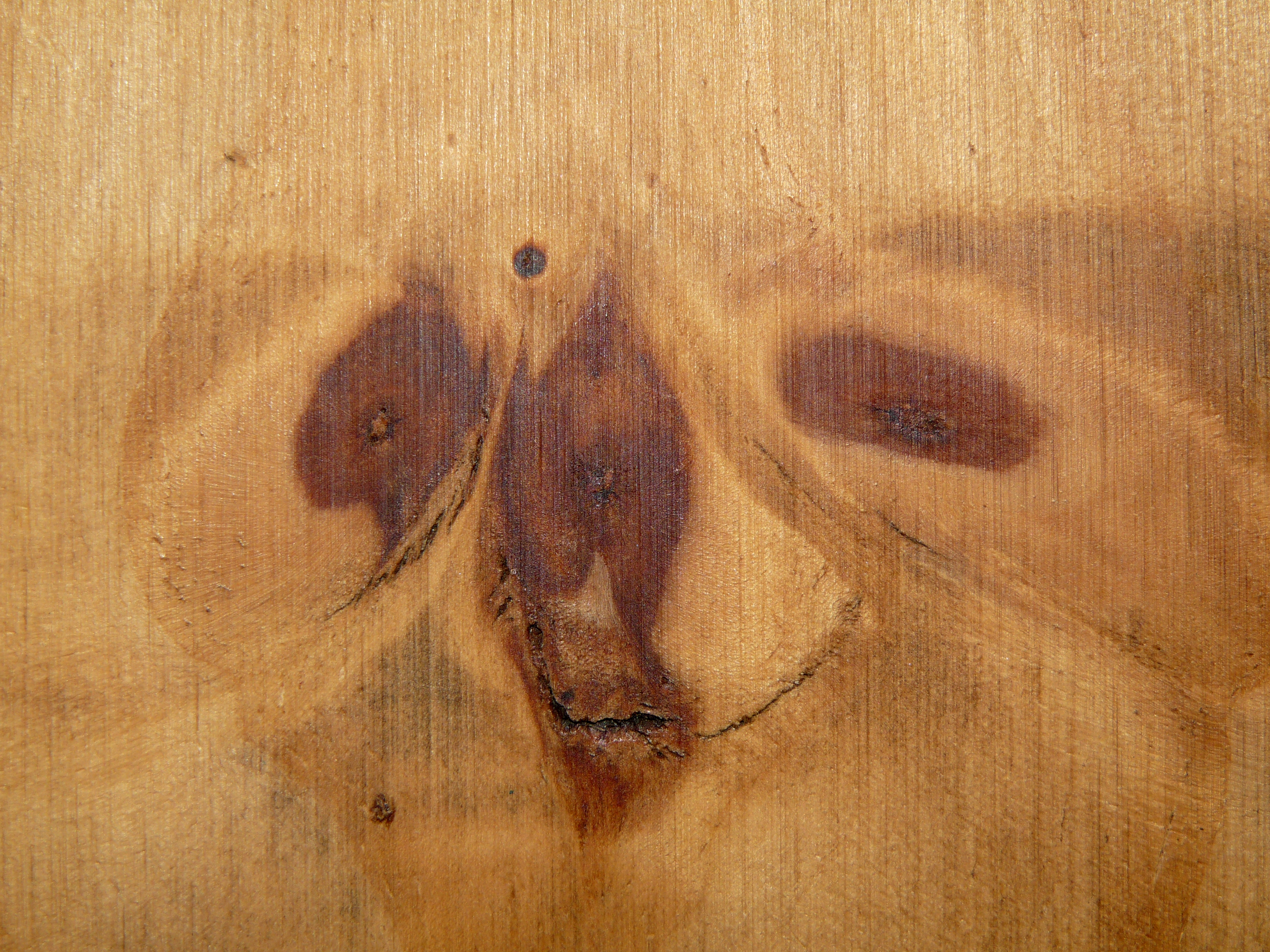 A Gremlin or yoda?